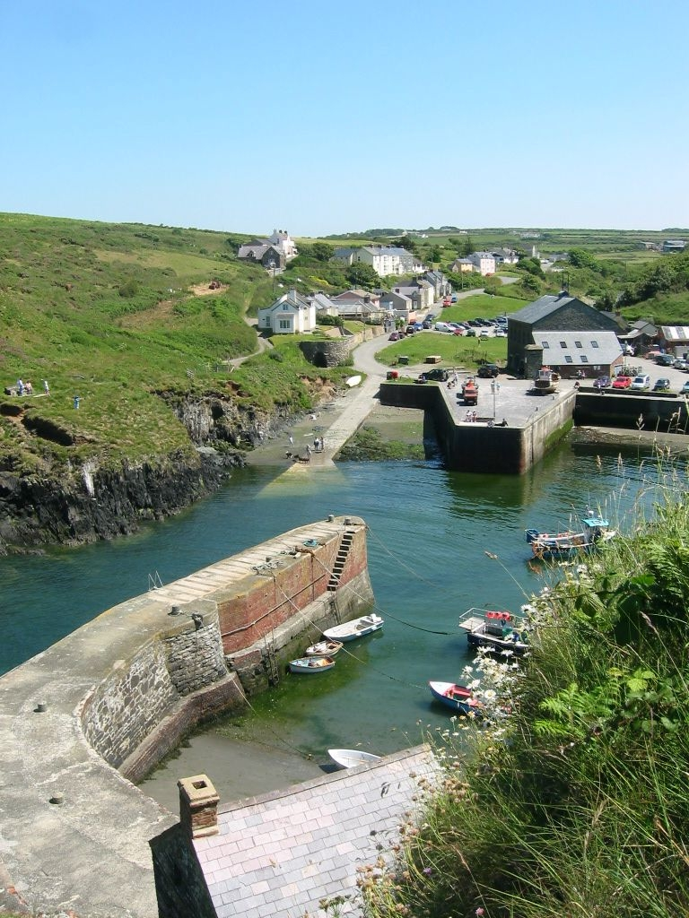 Porthgain Harbour in Wales, Great Britain.